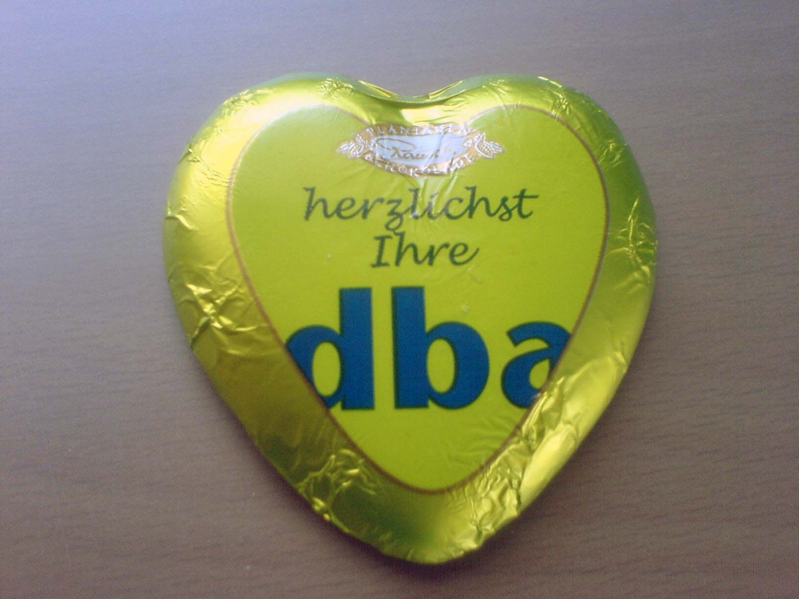 Chocolate heart as dispensed after a dba flight